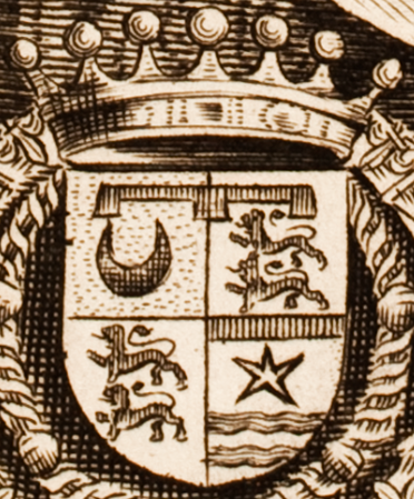 Arms of Claude de Mesmes comte d'Avaux, detail, of an engraving by Paulus Pontius